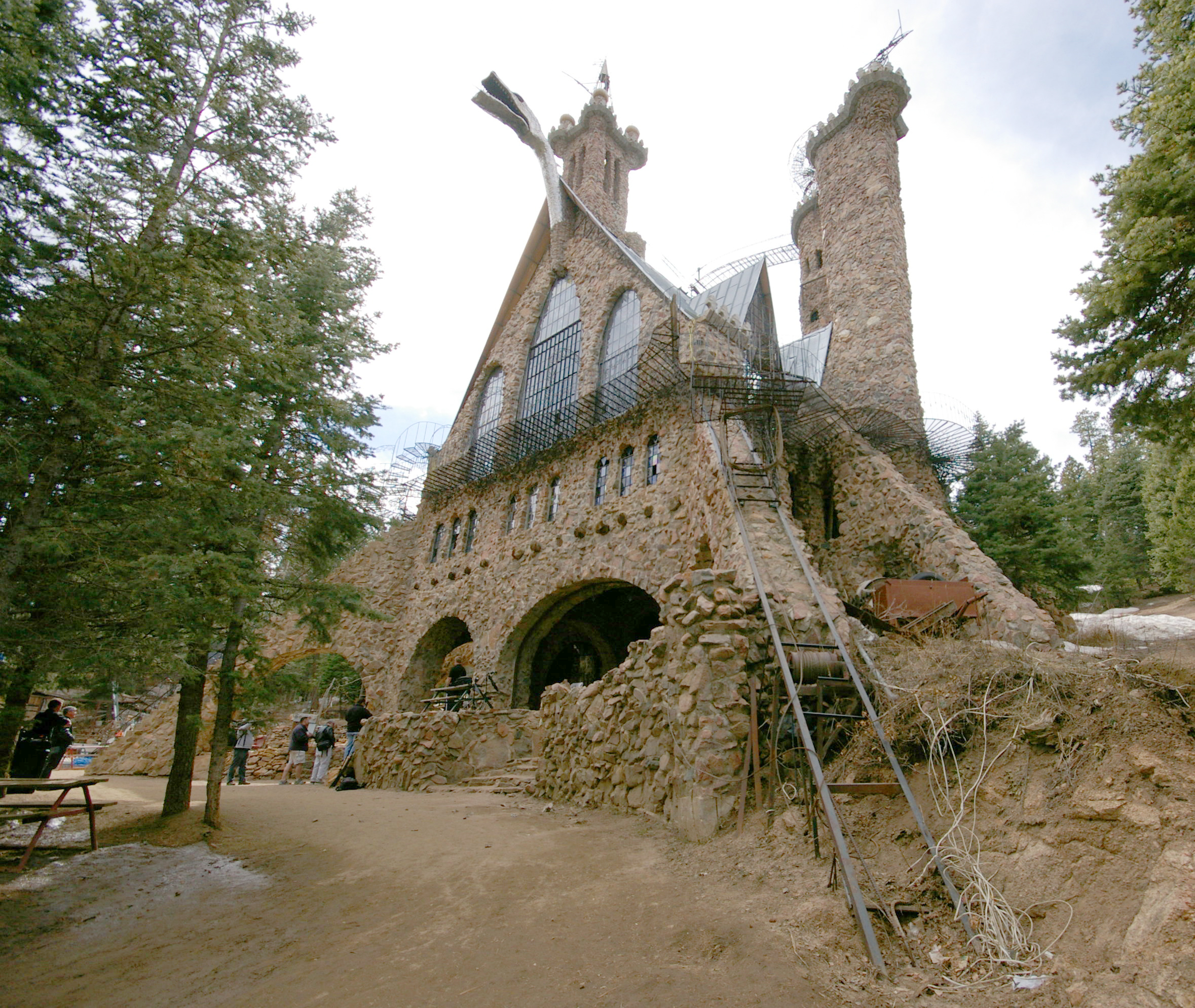 The Bishop Castle, near Fairview in Custer County.